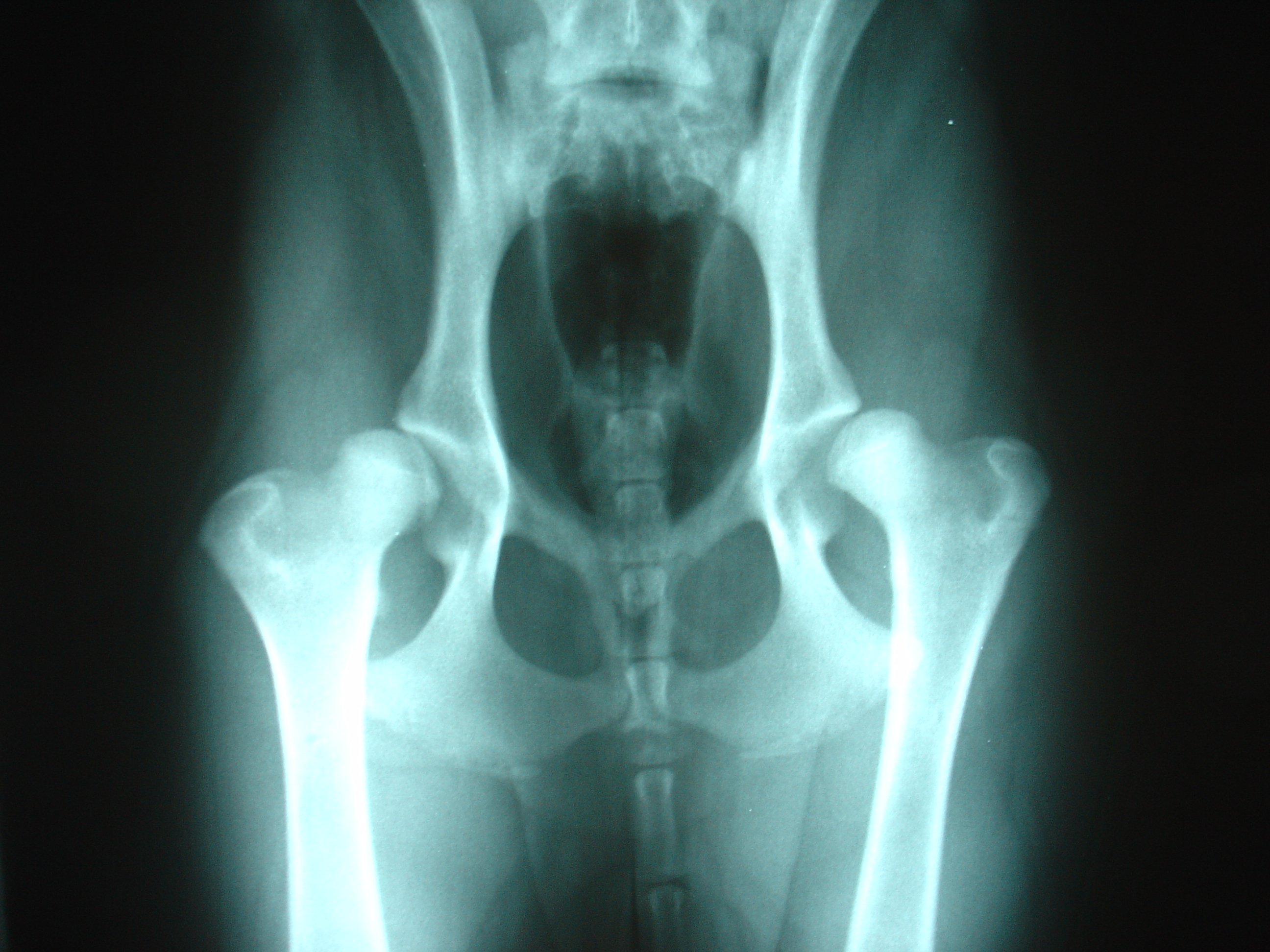 Bilateral hip dysplasia in a Labrador Retriever puppy. The left hip (positioned on the right side in the X-ray) is worse than the right hip, with only slight coverage of the head of the femur by the acetabulum. Photo of a x-ray taken by Joel Mills on May 26, 2006.